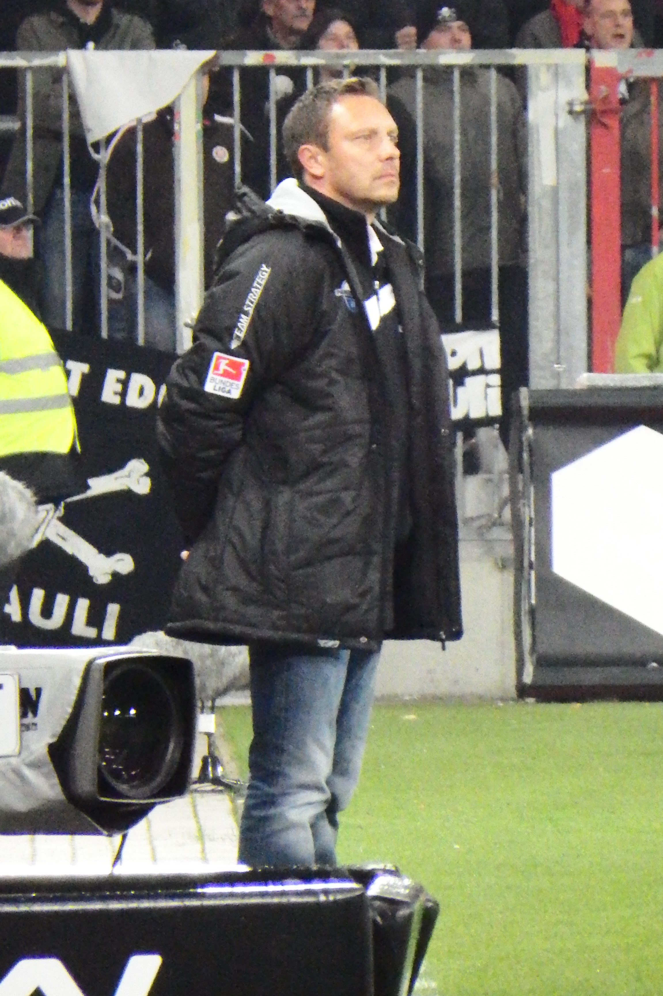 André Breitenreiter as Coach of SC Paderborn 07